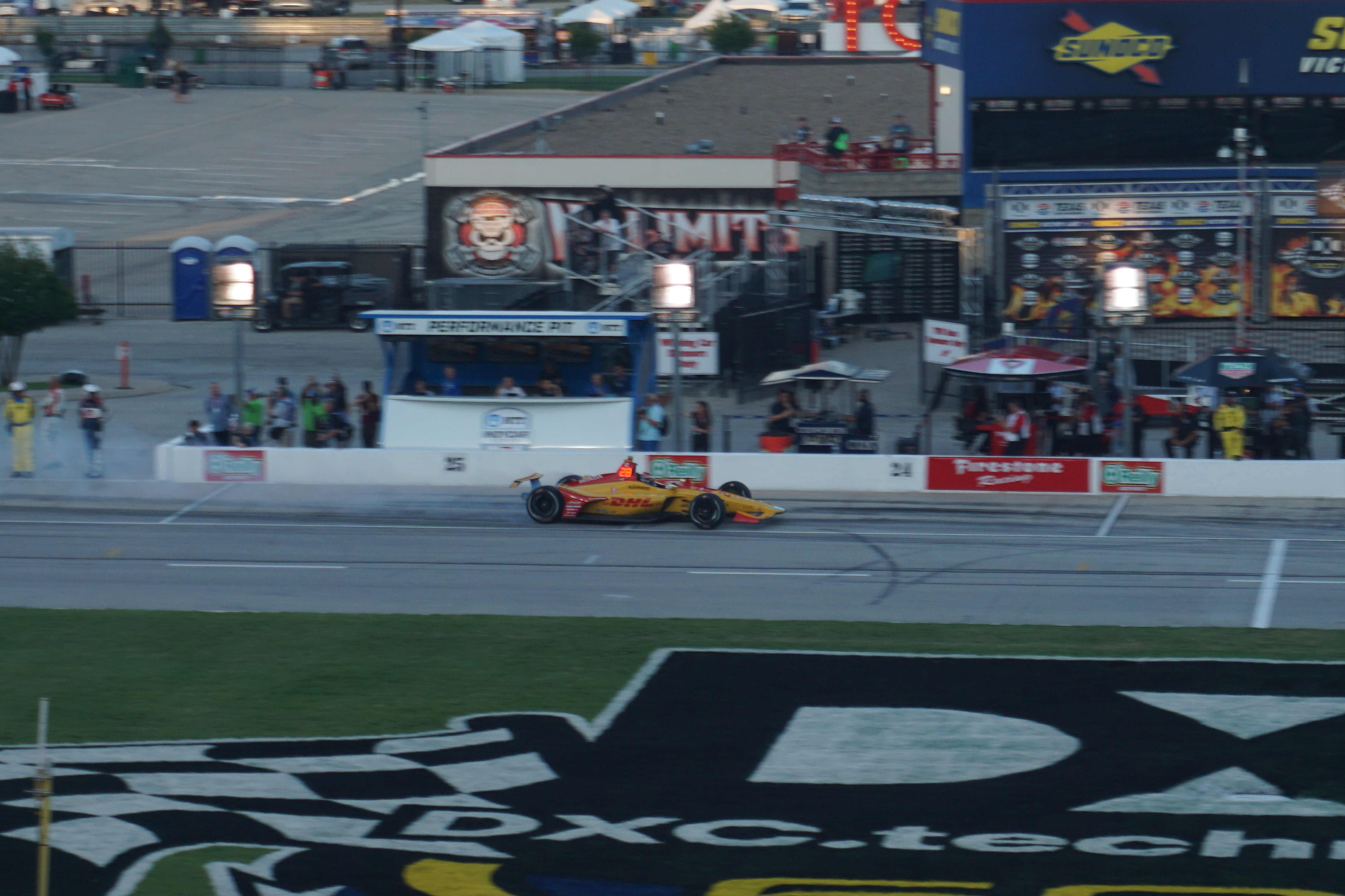 Ryan Hunter-Reay making a pit stop during the 2019 DXC Technology 600 at Texas Motor Speedway in Fort Worth, Texas (United States).